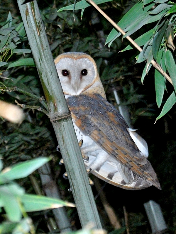 Common Barn Owl Tyto alba seen on the Klip River in Henley on Klip, South AfricaAfrikaans: Nonnetjie-uil (Tyto alba) by die Kliprivier in Henley on Klip, Suid Afrika